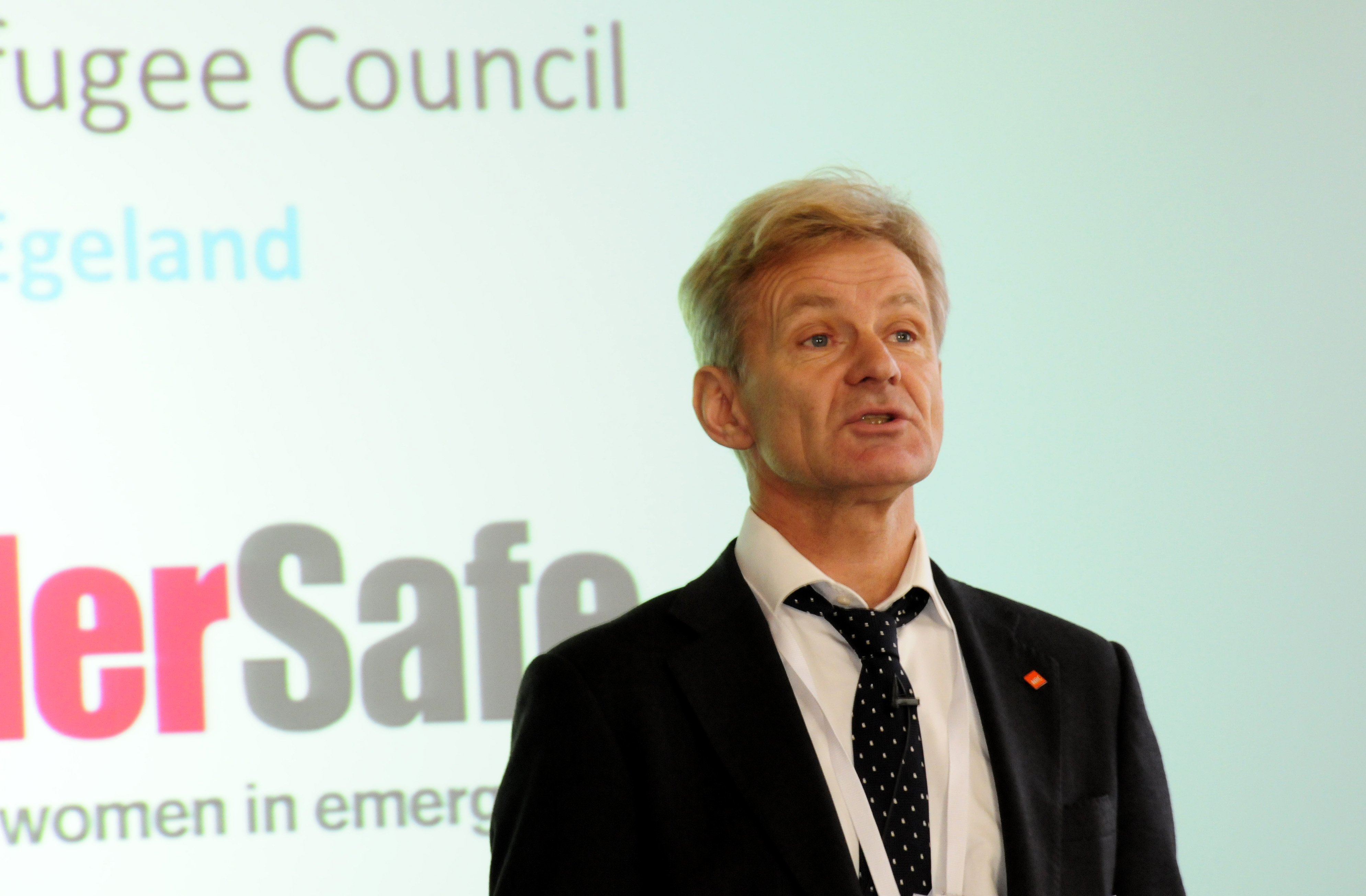 Jan Egeland, Secretary General of the Norwegian Refugee Council takes part in the panel discussion on implementation on the ground. Leading humanitarian agencies met in the UK today to endorse a global commitment that will prioritise the protection of girls and women from violence and sexual exploitation in emergency situations. International Development Secretary Justine Greening and Sweden’s International Development Minister Hillevi Engström co-chaired a high-level event in London for governments, UN heads, international NGOs and civil society organisations to agree a fundamental new approach to protecting girls and women in emergency situations, both man-made and natural disasters. Read the news story: Pictures: Sheena Ariyapala/DFID